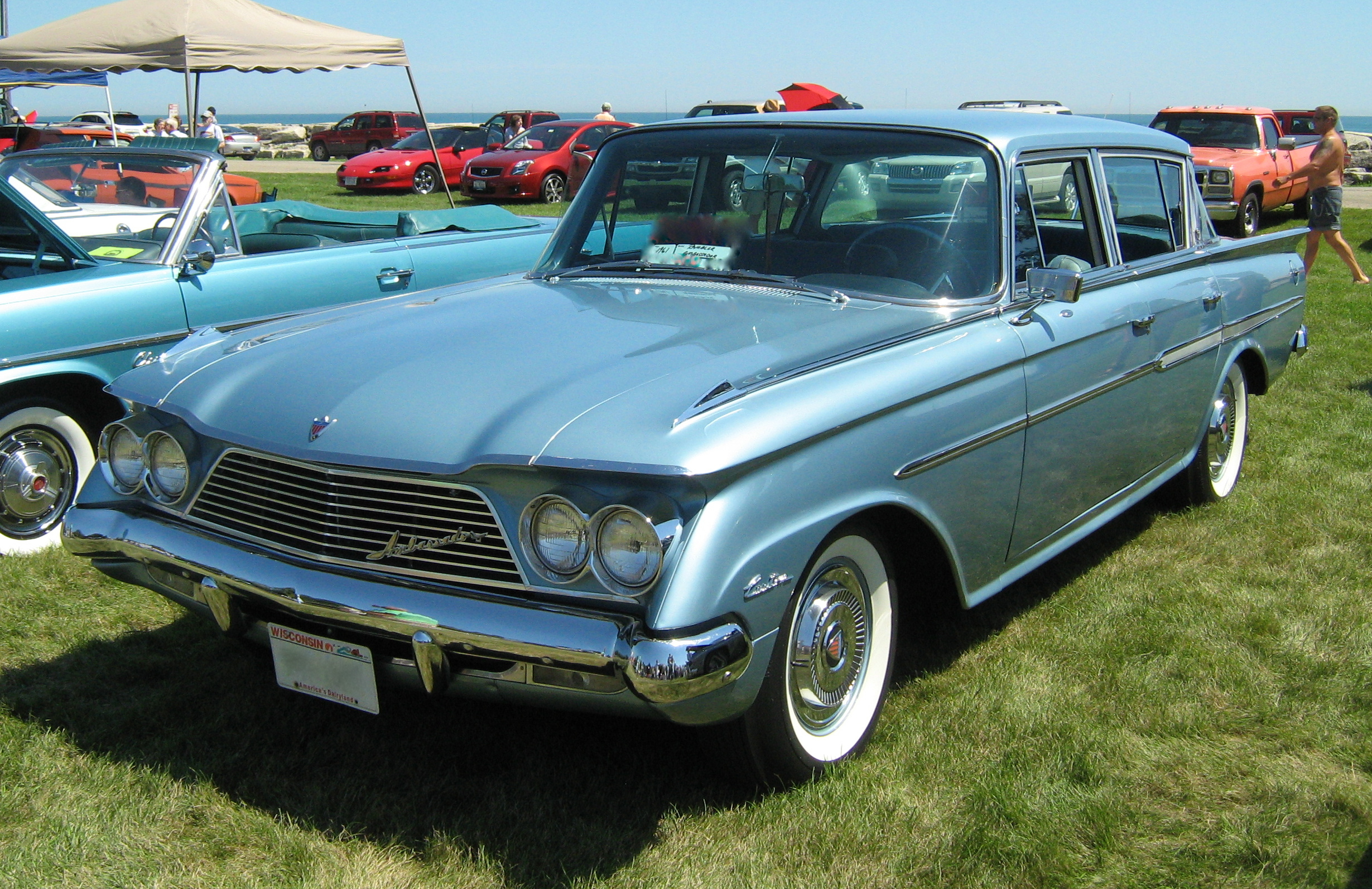 1961 Rambler Ambassador Custom four-door sedan by American Motors Corporation (AMC) finished in blue. Photographed in Kenosha, Wisconsin, USA.